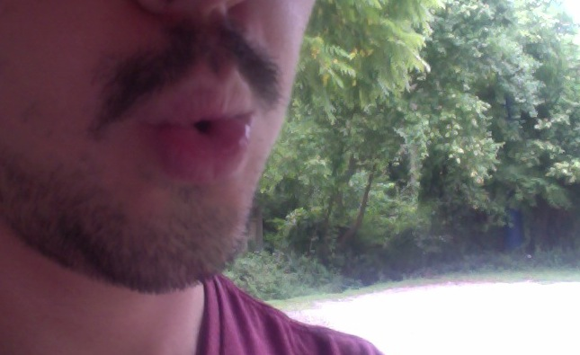 A human humwhistling in a field.